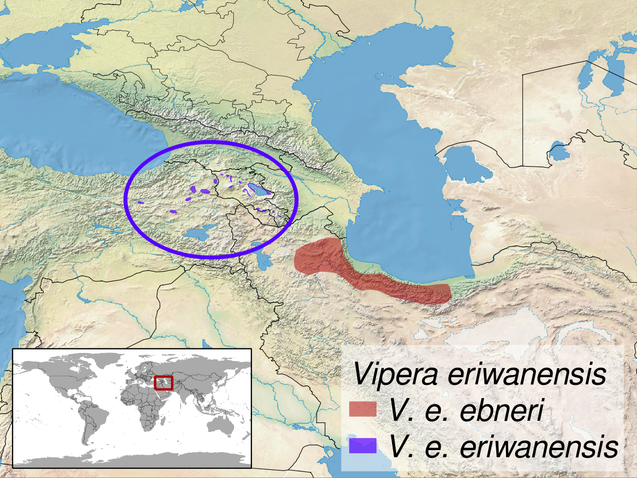 geographic distribution of Vipera eriwanensis including Vipera eriwanensis ebneri (syn Vipera ebneri). Native: Armenia (Armenia); Azerbaijan; Iran, Islamic Republic of; Turkey